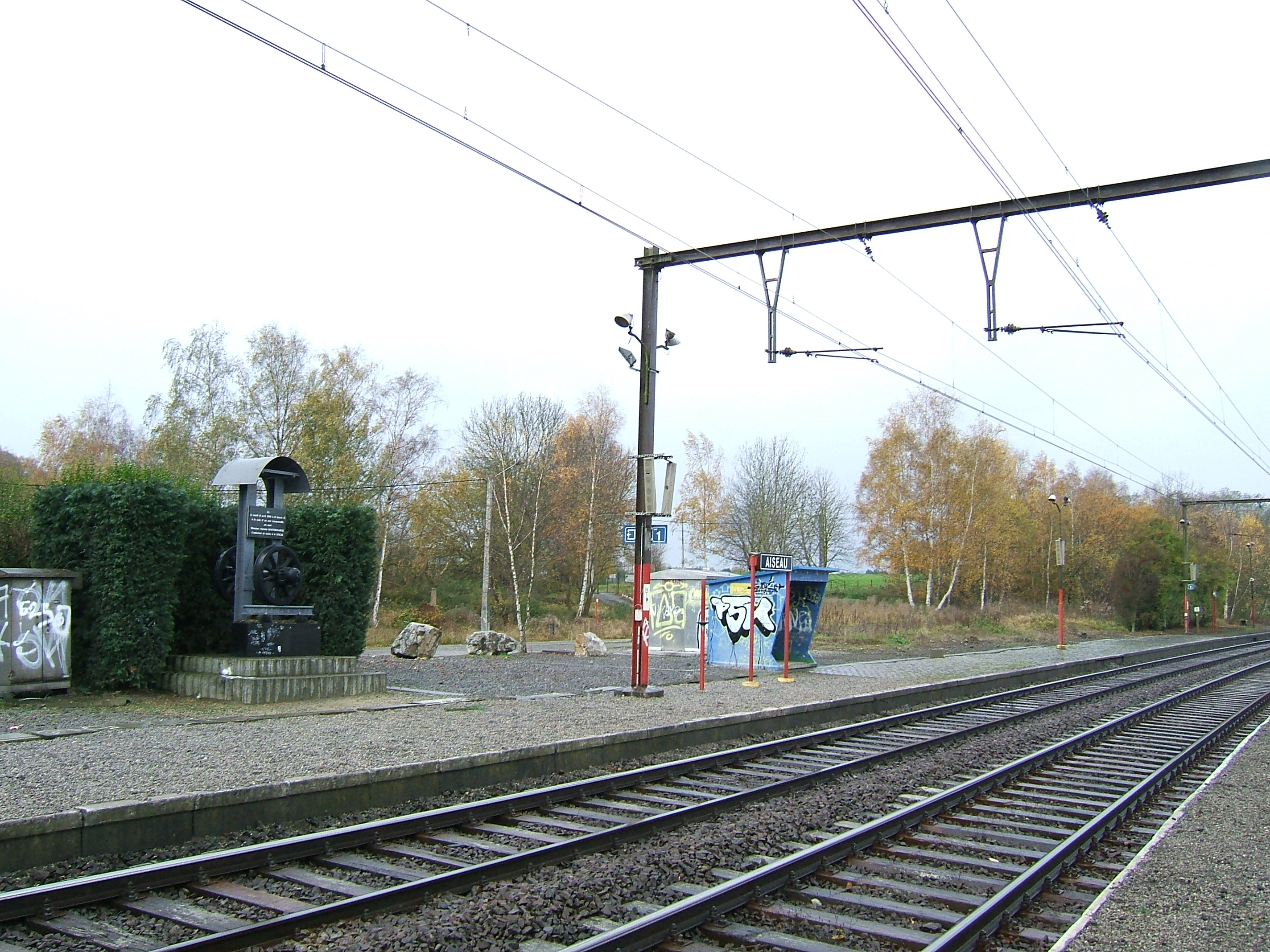 Aiseau, Belgium railway station